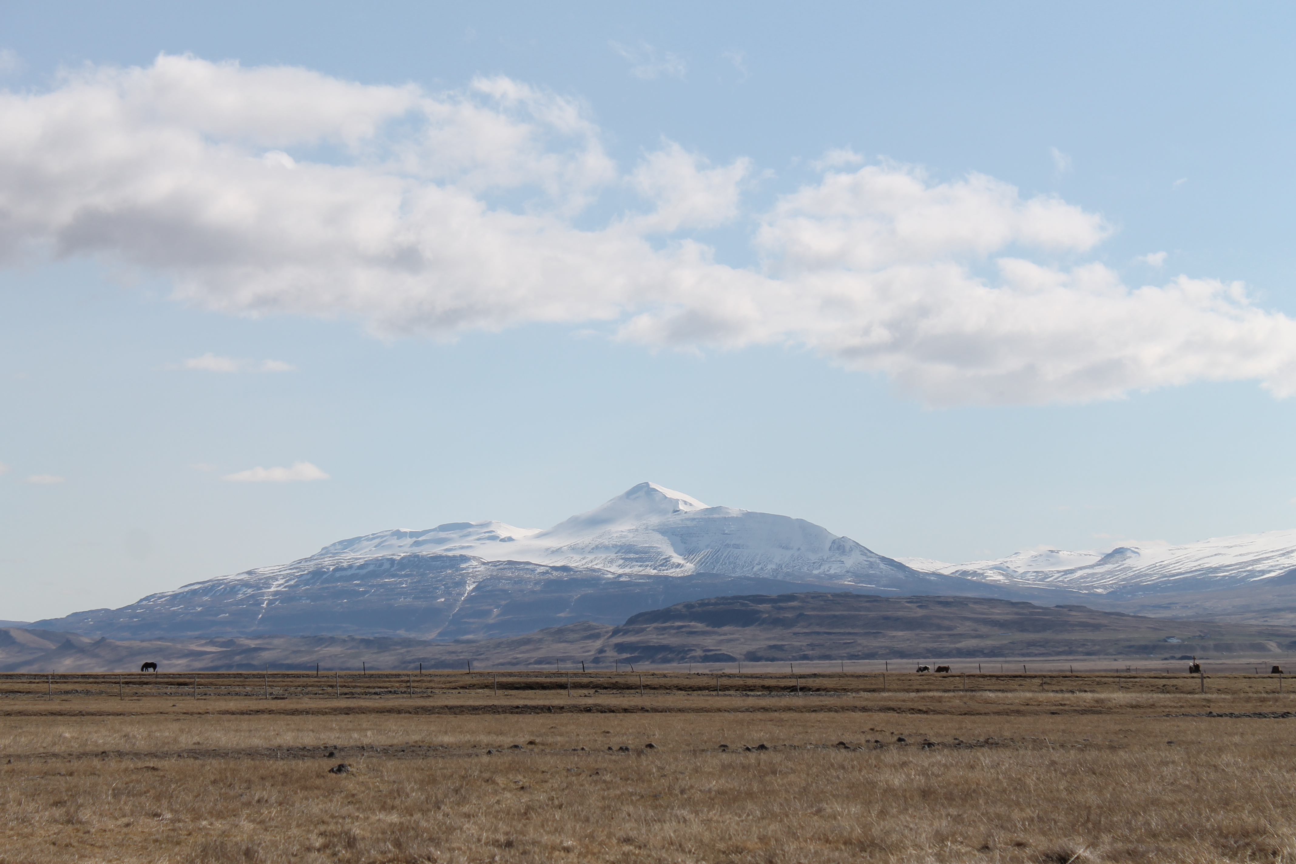 Mælifellshnjúkur in Skagafjörður, Northern Iceland, taken in May 2012.